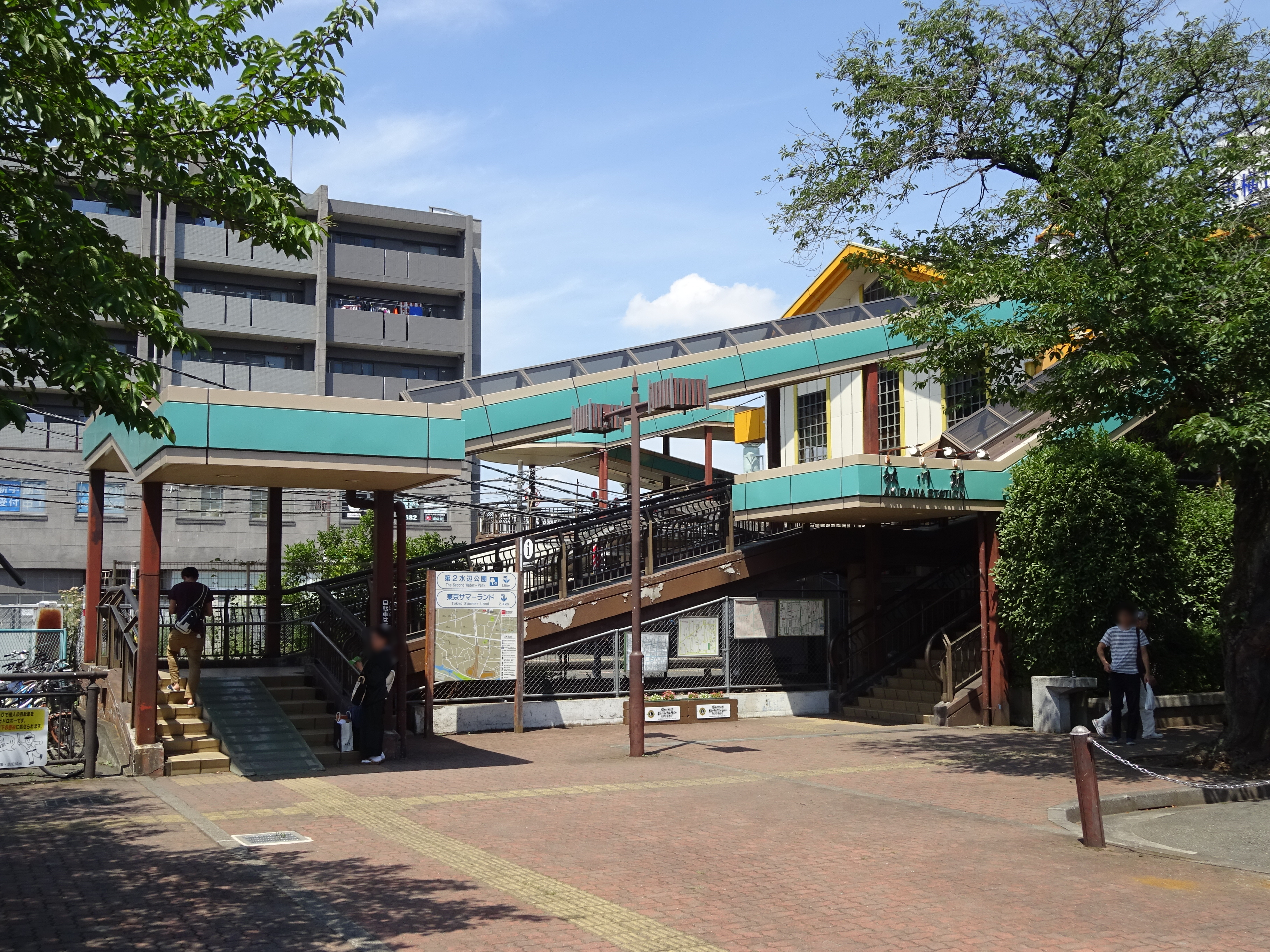 The south entrance to Akigawa Station on the Itsukaichi Line in Tokyo, Japan